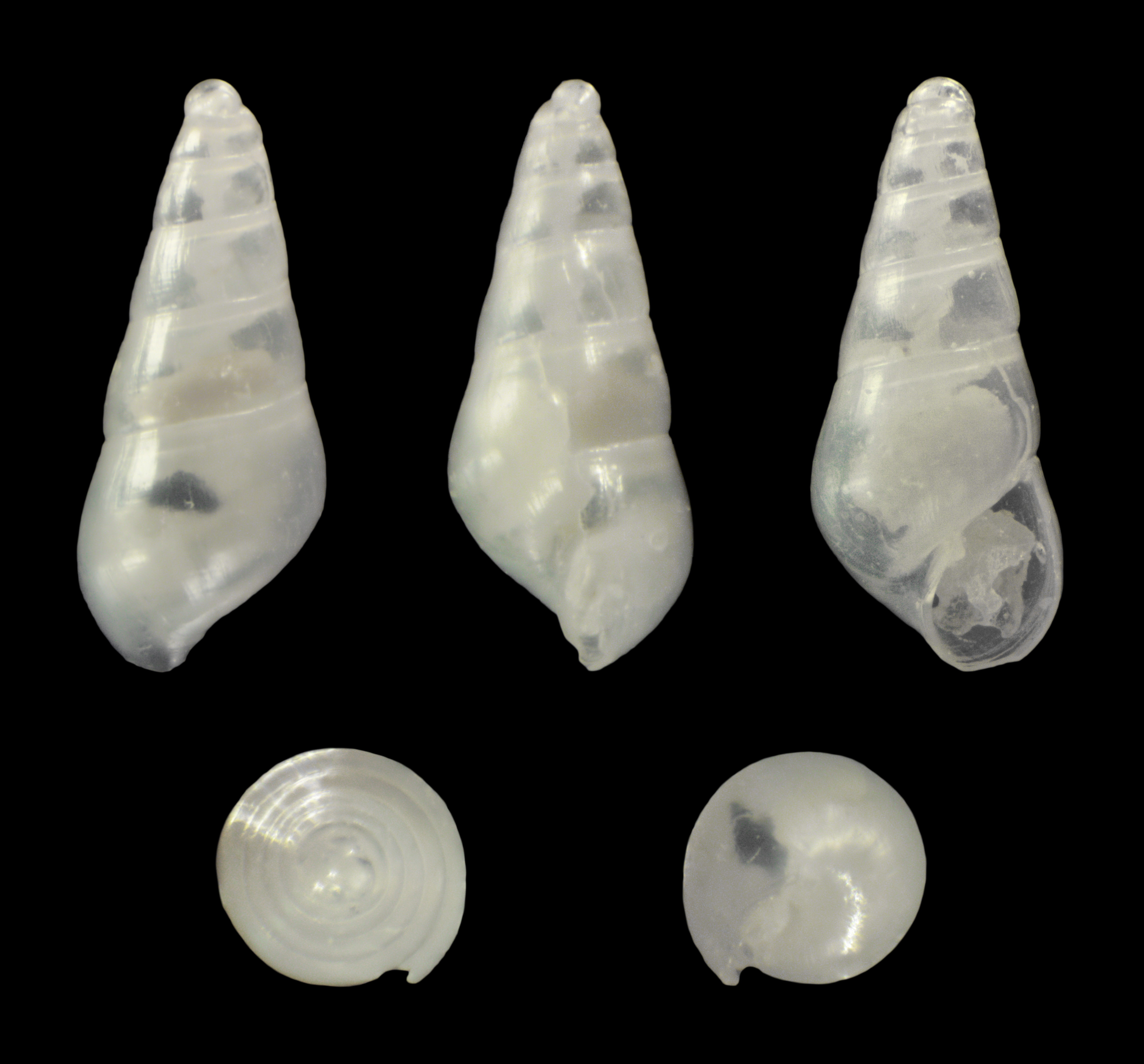 Odostomia acuta var.attenuata Marshall, 1893, Length 0.2 cm; Originating from Mallorca, Spain; Shell of own collection, therefore not geocoded.